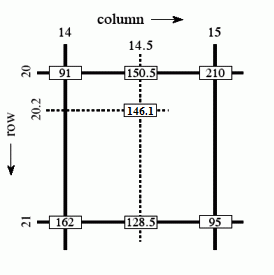 Example of bilinear interpolation This is a retouched picture, which means that it has been digitally altered from its original version. Modifications: Fixed error on interpolated value. The original can be viewed here: Bilin2.png. Modifications made by Vizerai.